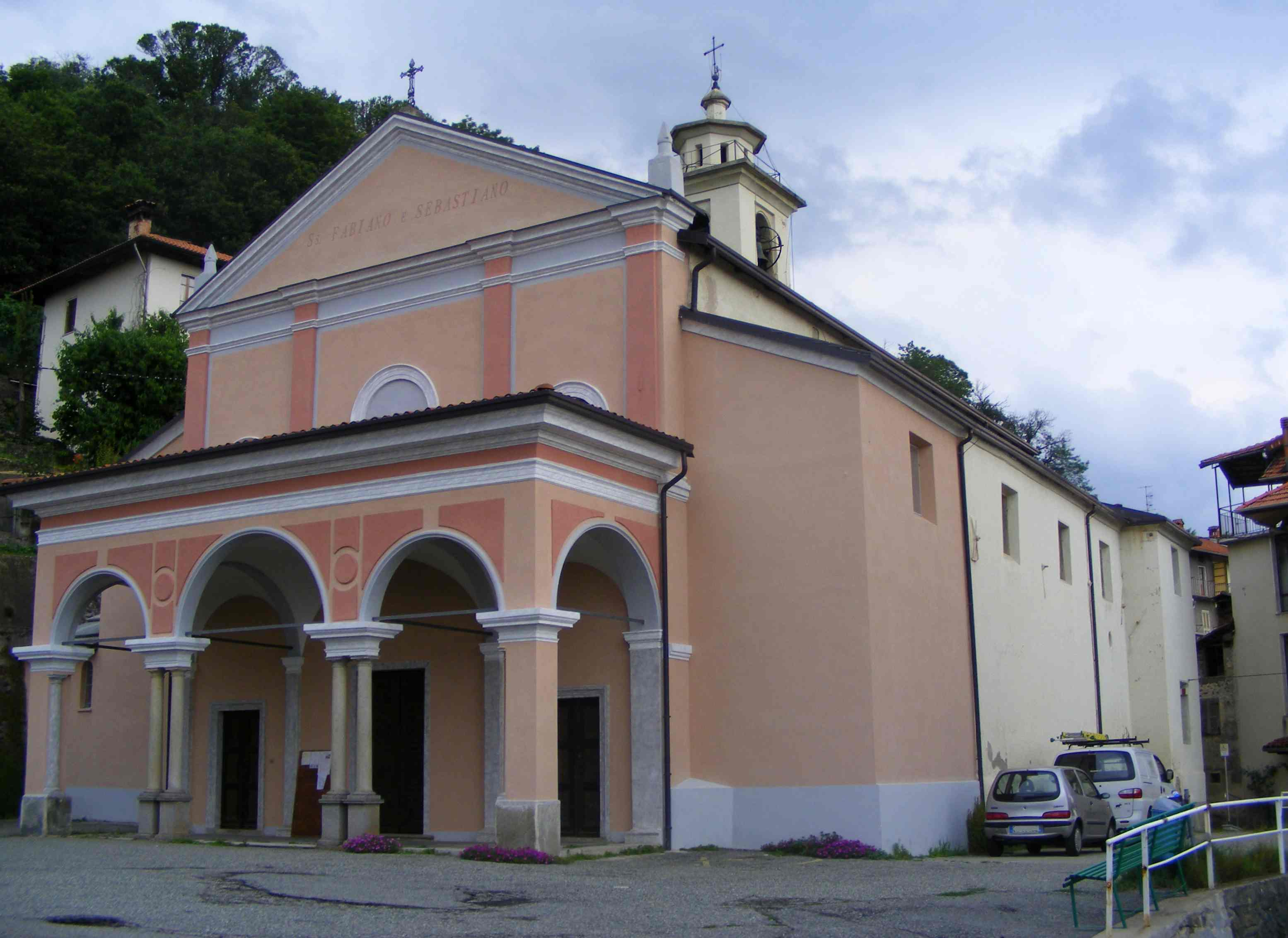 Bulliana (Trivero, BI, Italy): SS. Fabiano and Sebastiano parish church